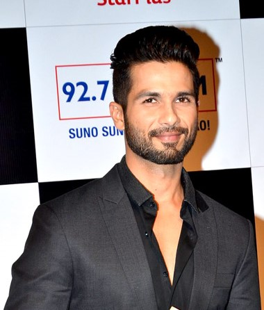 Shahid Kapoor at 2014 BIG Star Entertainment Awards